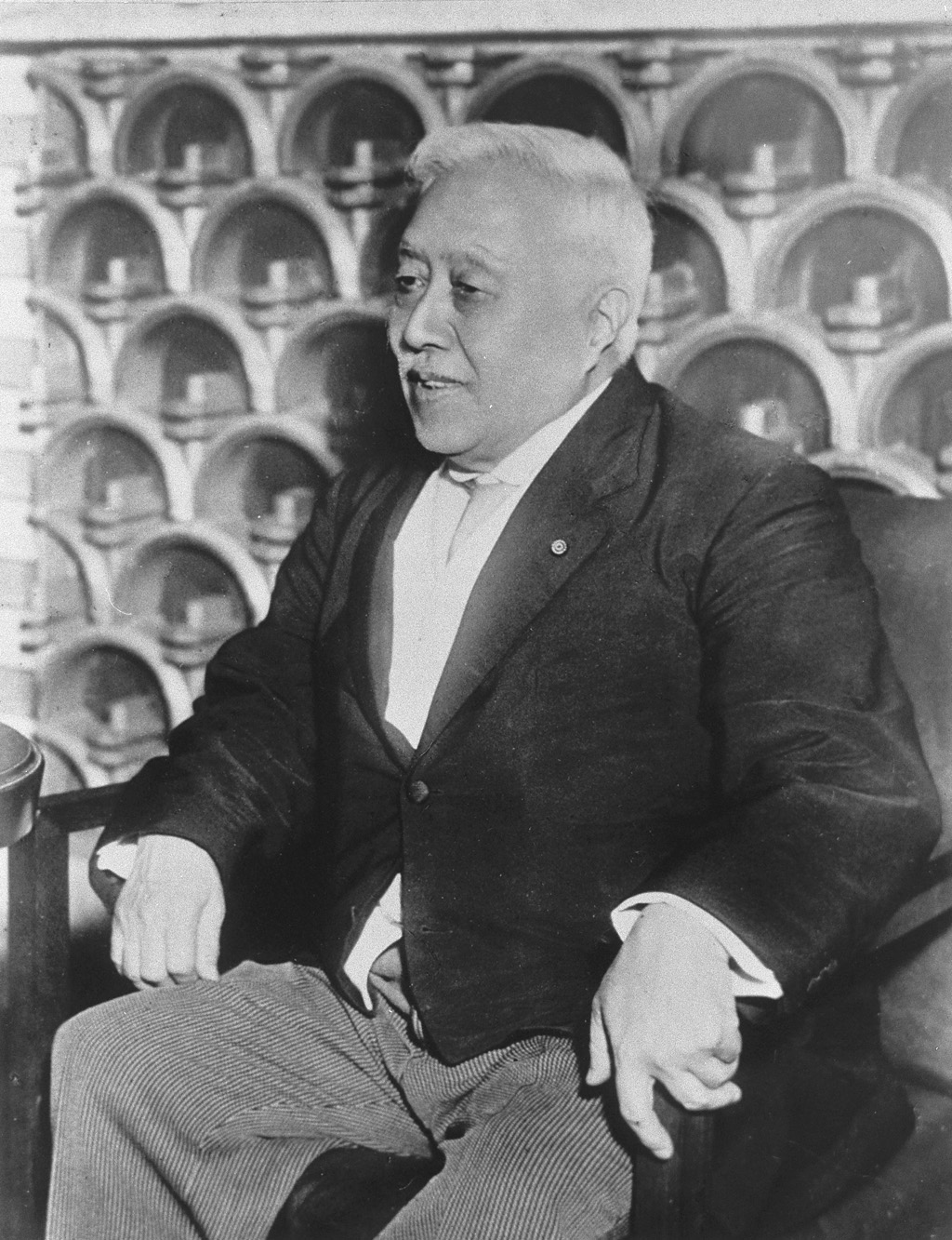 Portrait of Saito Makoto (斎藤実, 1858 – 1936)